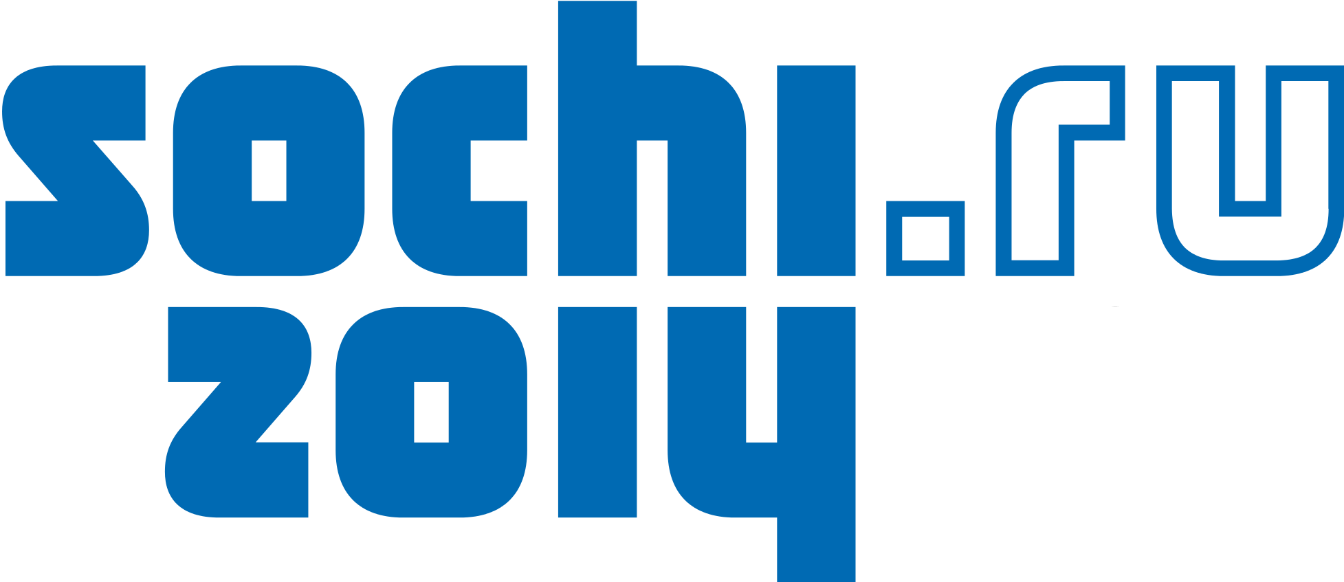 Sochi 2014 logo no rings.